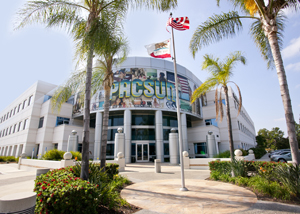 Pacific Sunwear Corporate Headquarters